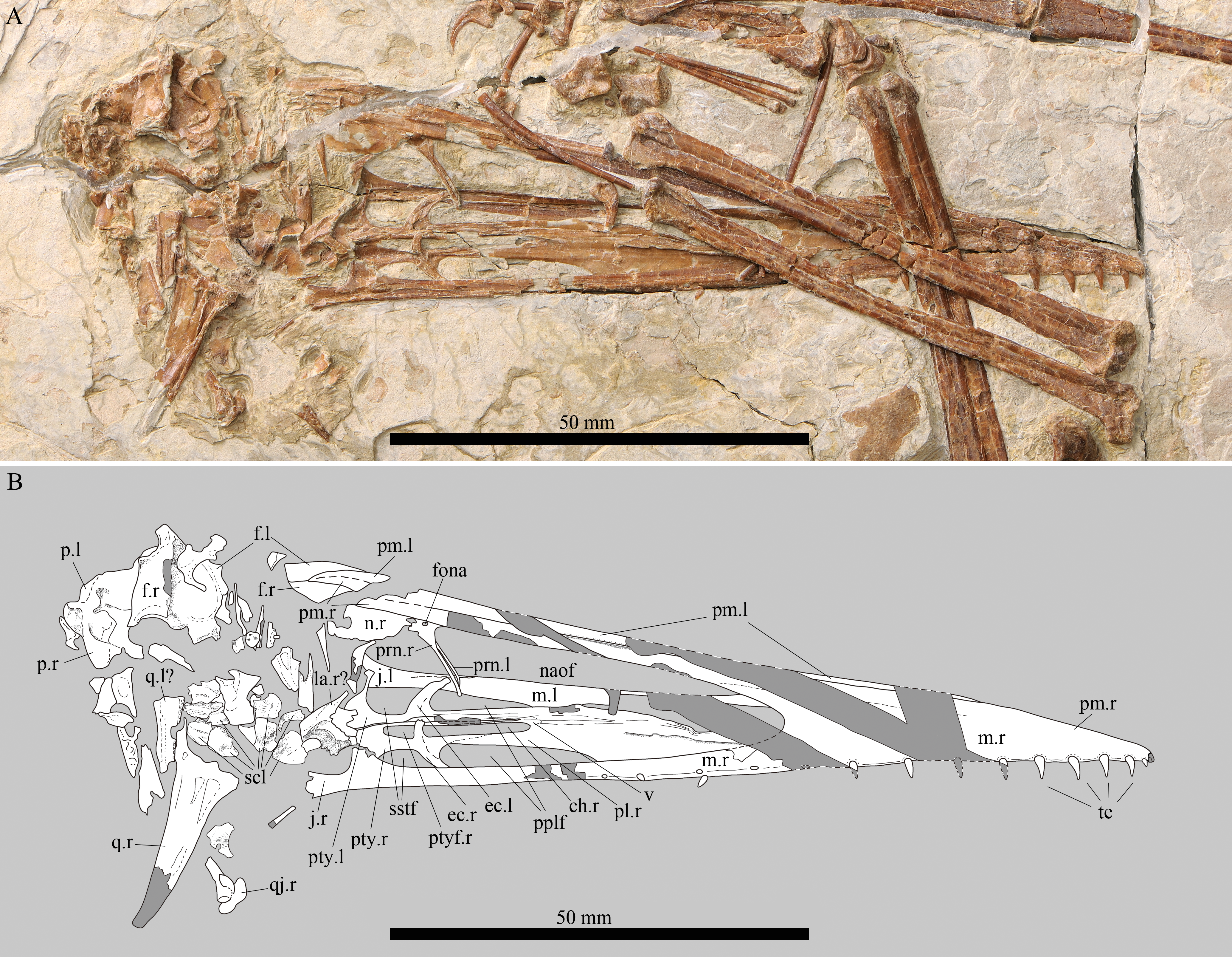 Details of the skull of Kunpengopterus sinensis (IVPP V 23674). (A) Close up of the right lateral view. (B) Line drawing, with missing parts and regions covered by other skeletal elements in dark grey. Scale bars: 50 mm. Abbreviations: ch, choana; ec, ectopterygoid; f, frontal; fona, foramen nasale; j, jugal; l, left; la, lacrimal; m, maxilla; n, nasal; naof, nasoantorbital fenestra; pl, palatine; pm, premaxilla; pplf, postpalatine fenestra; prn, process of nasal; pty, pterygoid; ptyf, pterygoid fenestra; q, quadrate; qj, quadratojugal; scl, sclerotic ring; sstf, secondary subtemporal fenestra; te, teeth; v, vomer; ?, uncertain.